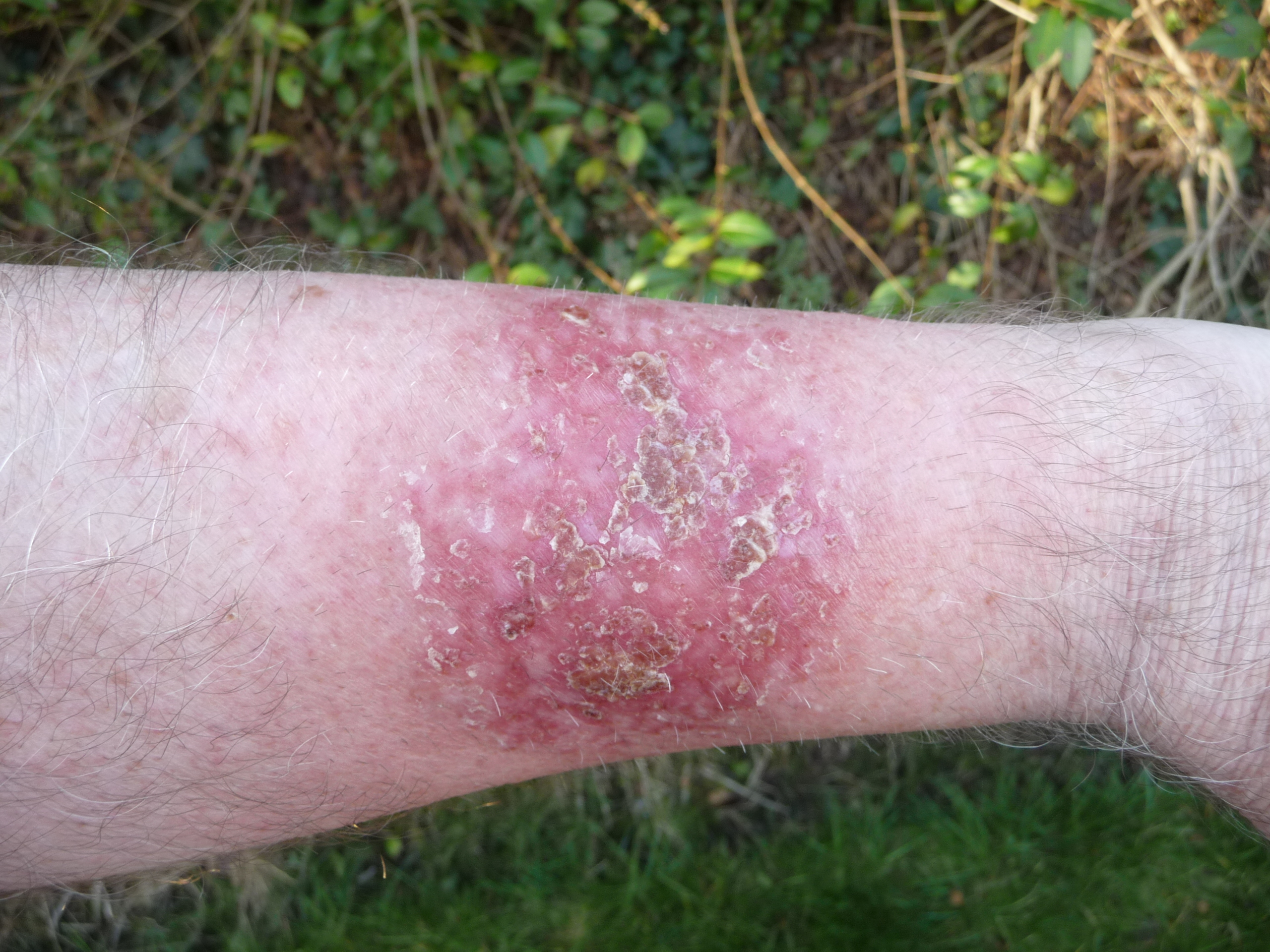 Skin damage caused by topical treatment with Efudix (after one month) before the healing phase starts (months two and three)